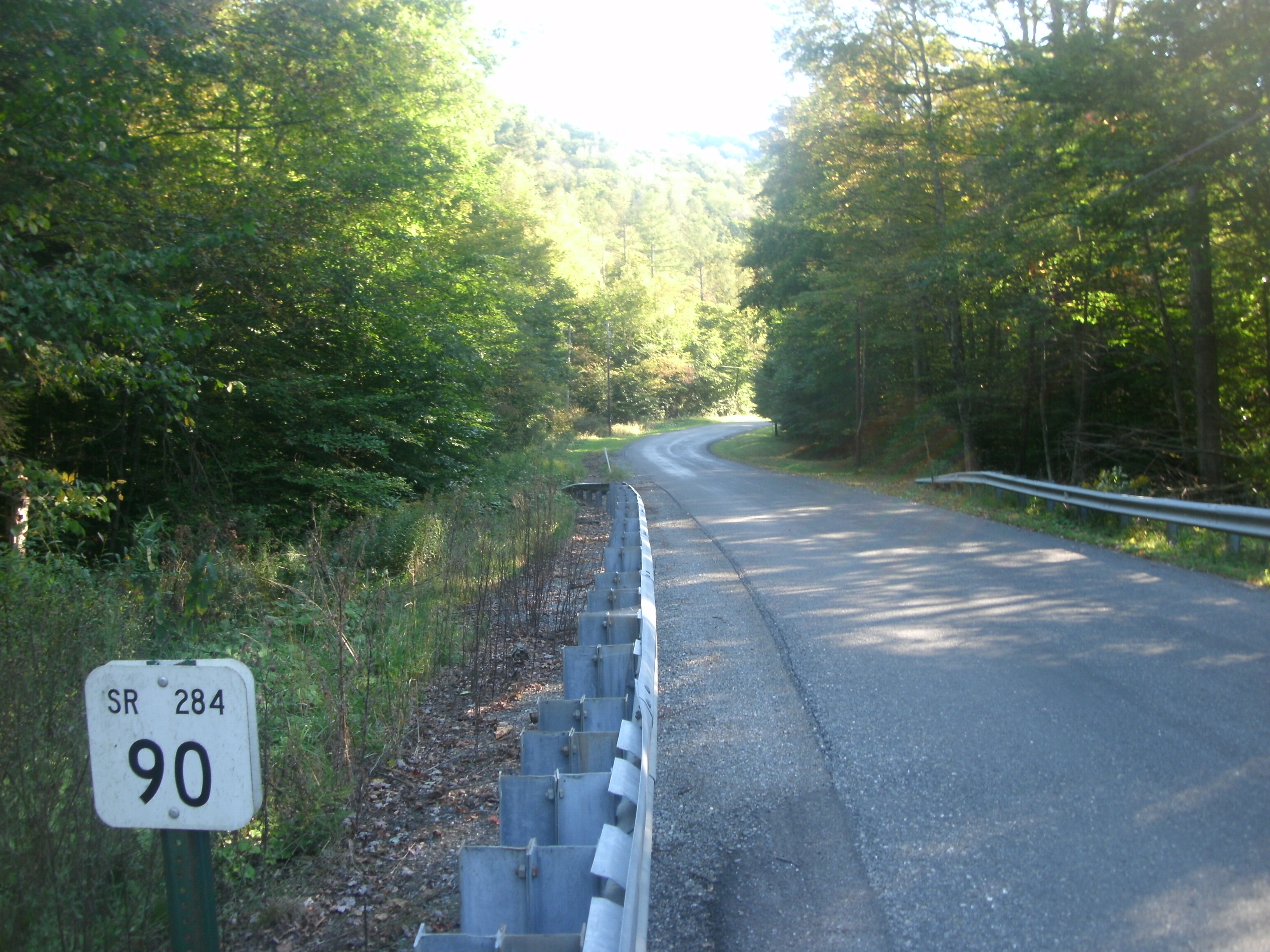 A view of Route 284 from the bridge over a river in Pine Township, Lycoming County, Pennsylvania.